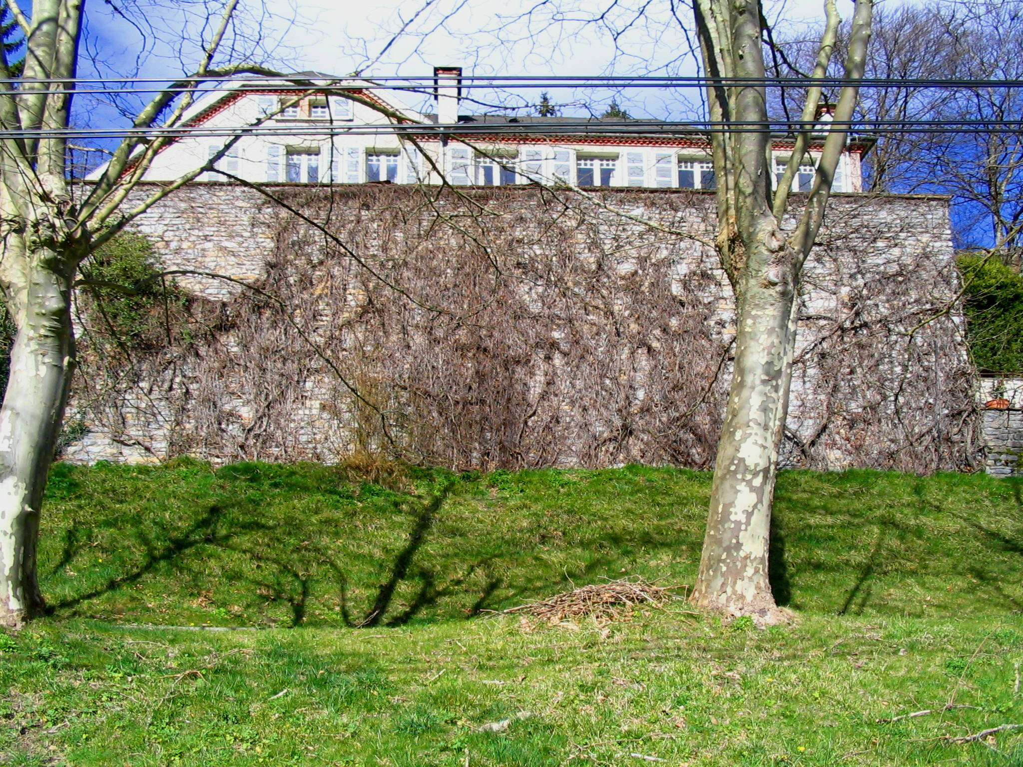 House of the british novelist Dornford Yates in the french Pyrenees - Eaux-Bonnes Author:P.Charpiat 2007